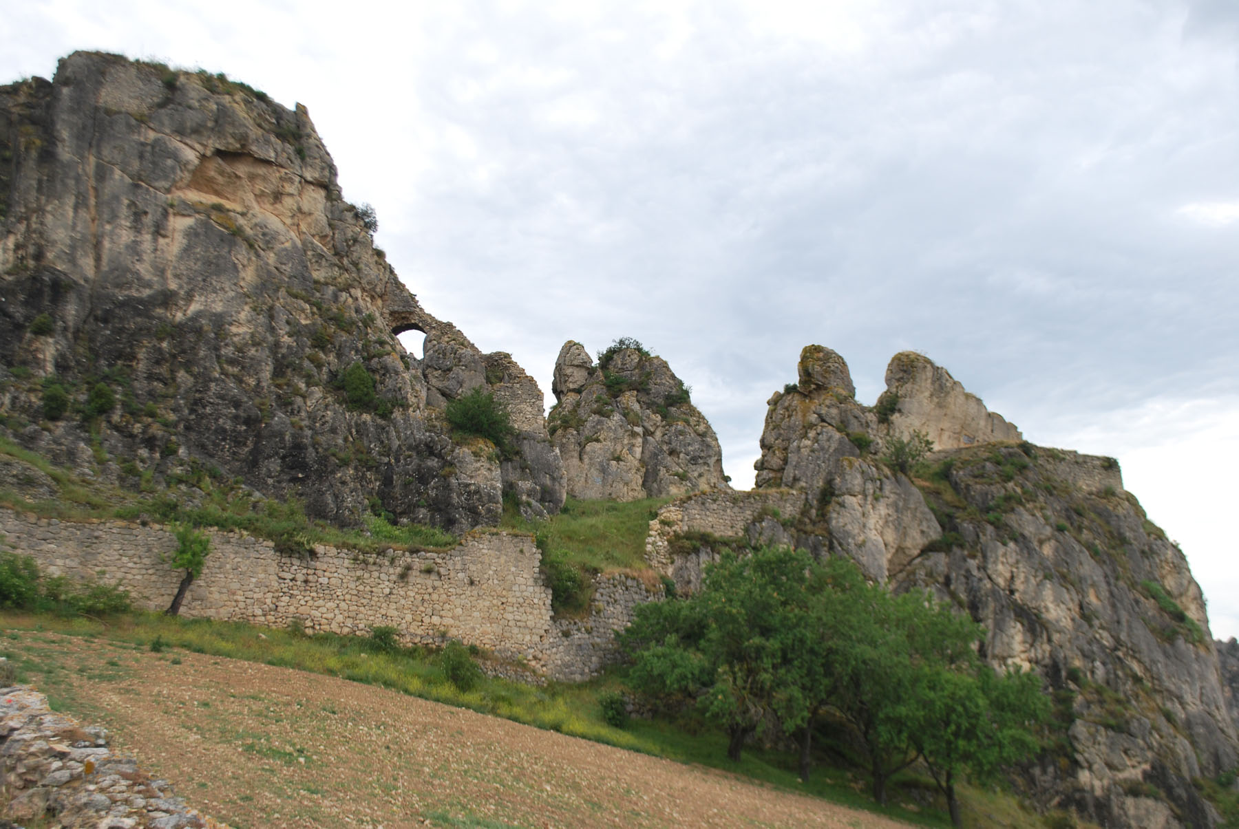 Ruins of the castle of Pancorbo (Burgos, Spain). A bridge joinig the lower part with the upper part where was the main tower is showing.